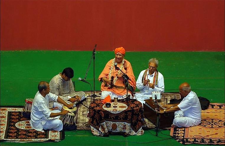 Sant Bhadragiri Achuta Das in a Harikatha at Saligram, Karnataka.